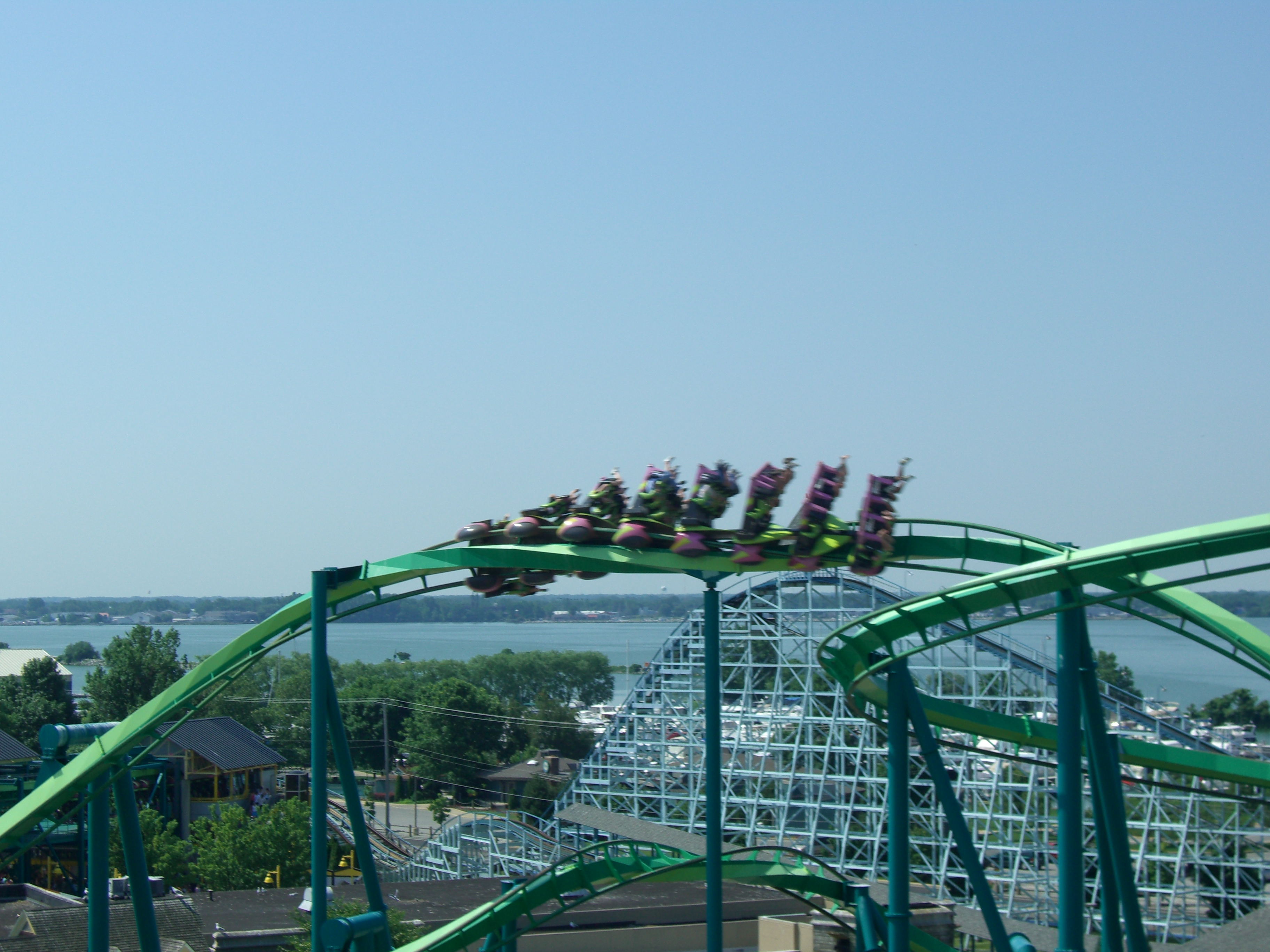 Raptor's zero-g roll at Cedar Point.